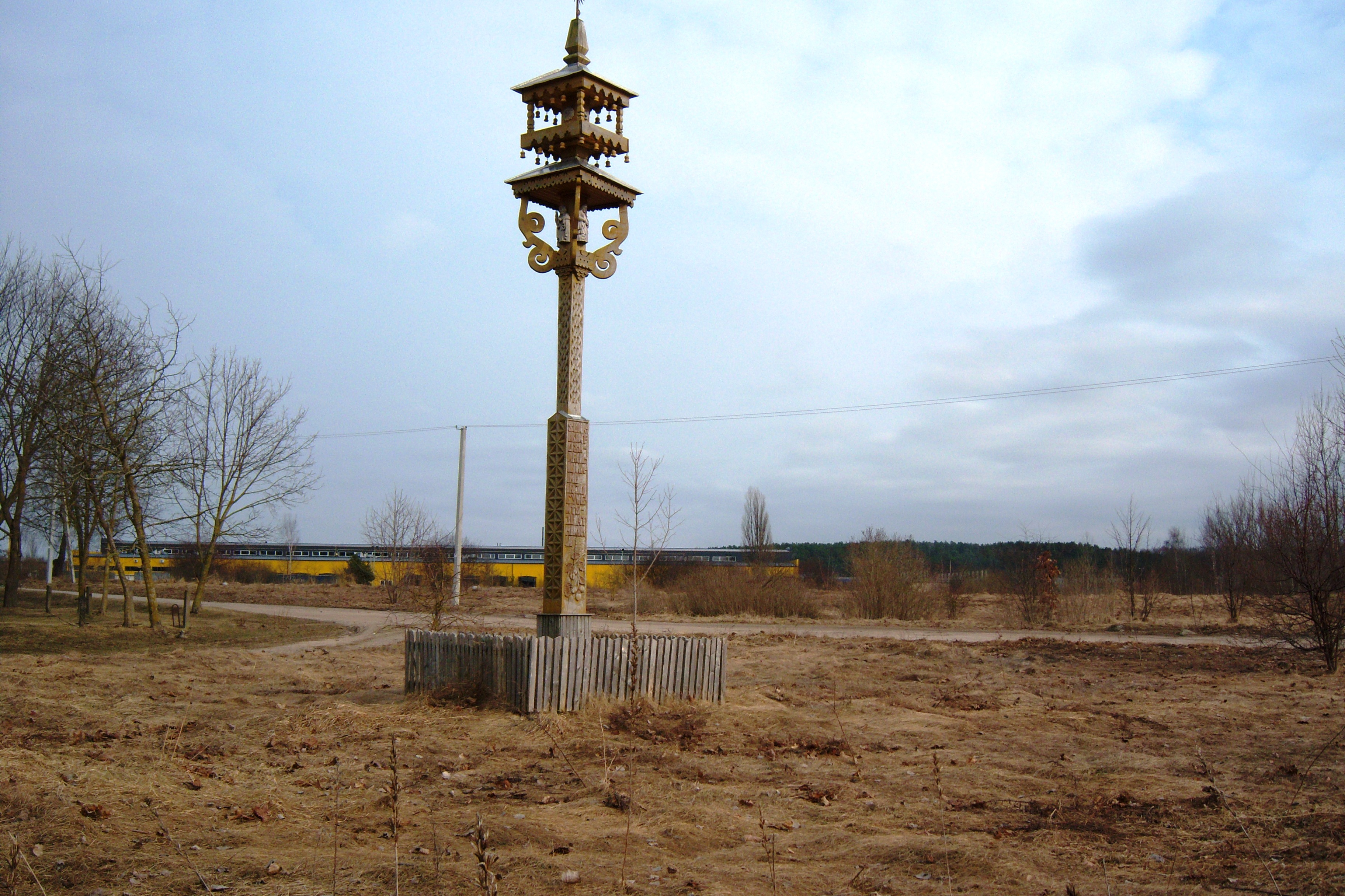 Carved wooden pole in Skaruliai, Lithuania